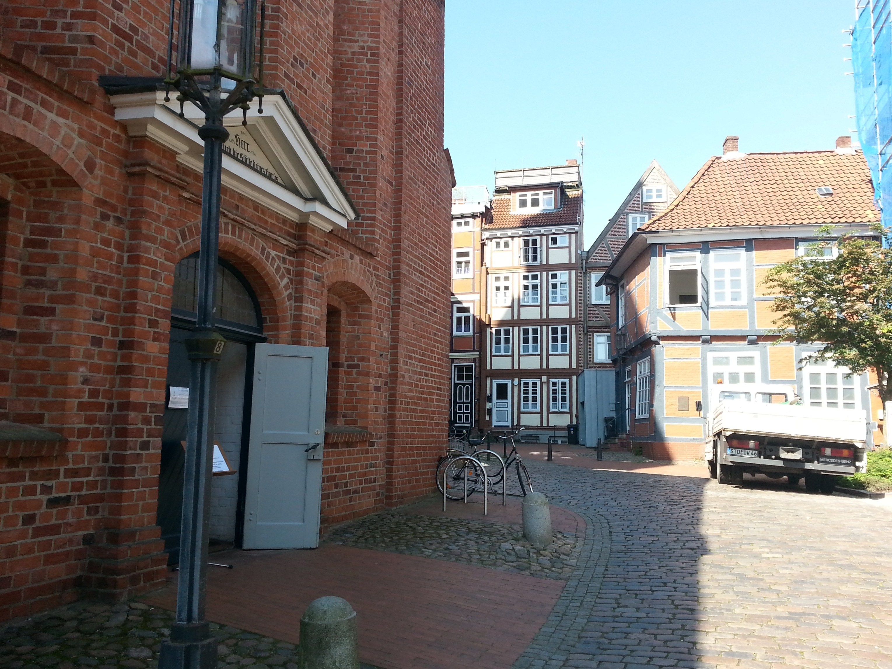 Look through the Cosmaekirchhof street westwards to the former Synagogue of Stade. The actual prayer hall was on the first floor and used as such between 1873 and 1908 by the Stade Synagogal Congregation (Synagogengemeinde Stade, est. by 1811, dissolved in 1941). On the left there is the northern portal and façade of Ss. Cosmae et Damiani Church.